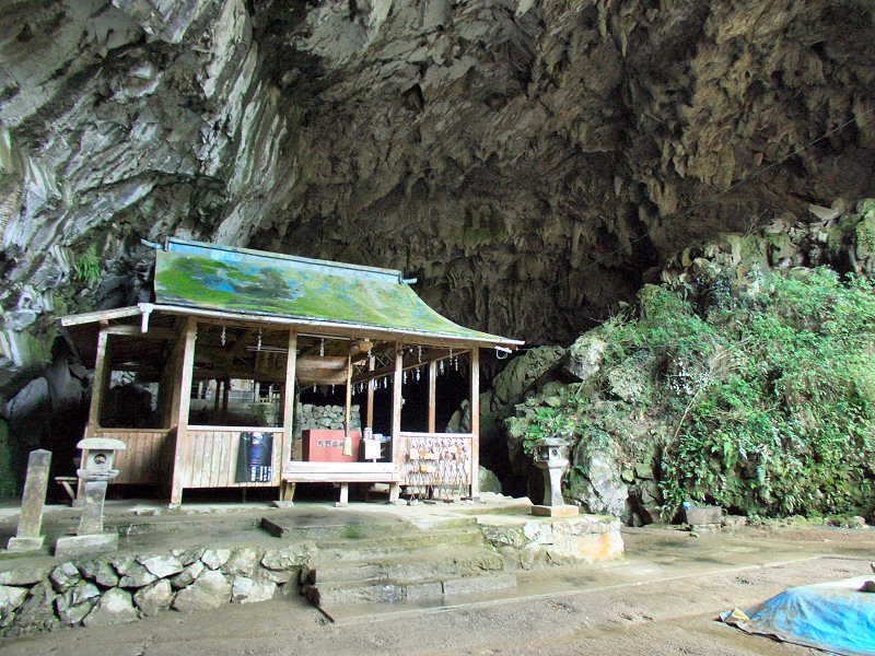 Japan: Kumanoza shrine in Kuma village (Kumamoto prefecture).